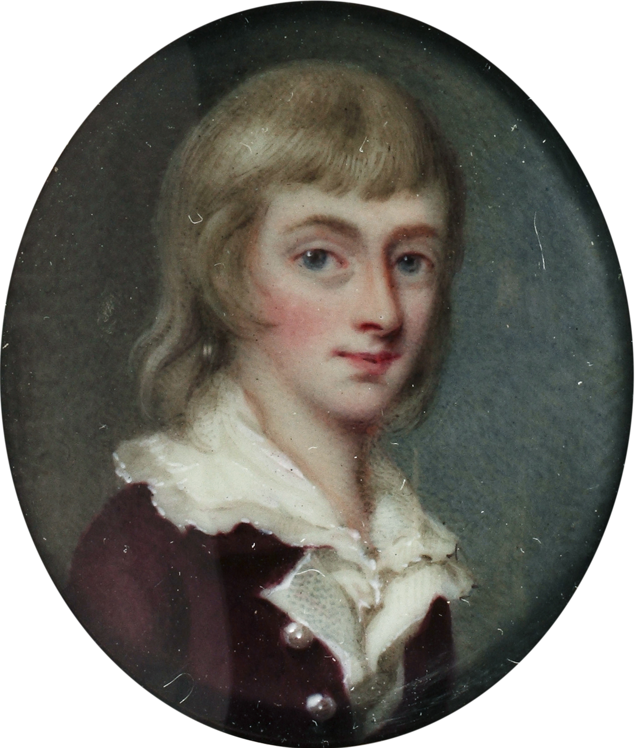 Thomas Dawson (c.1771-1787), son of Thomas Dawson, 1st Viscount Cremorne enamel inscribed verso: The Honble/ Thomas Dawson 3,8 cm high